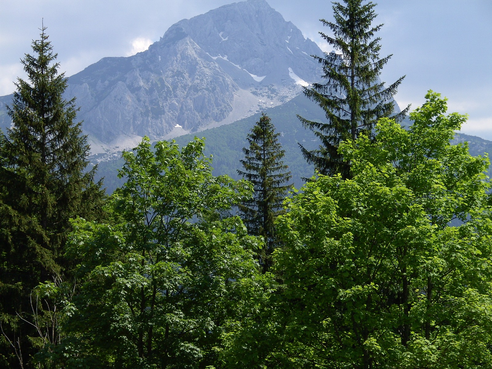 National park Sutjeska, Bosnia and Herzegovina Digital StillCamera